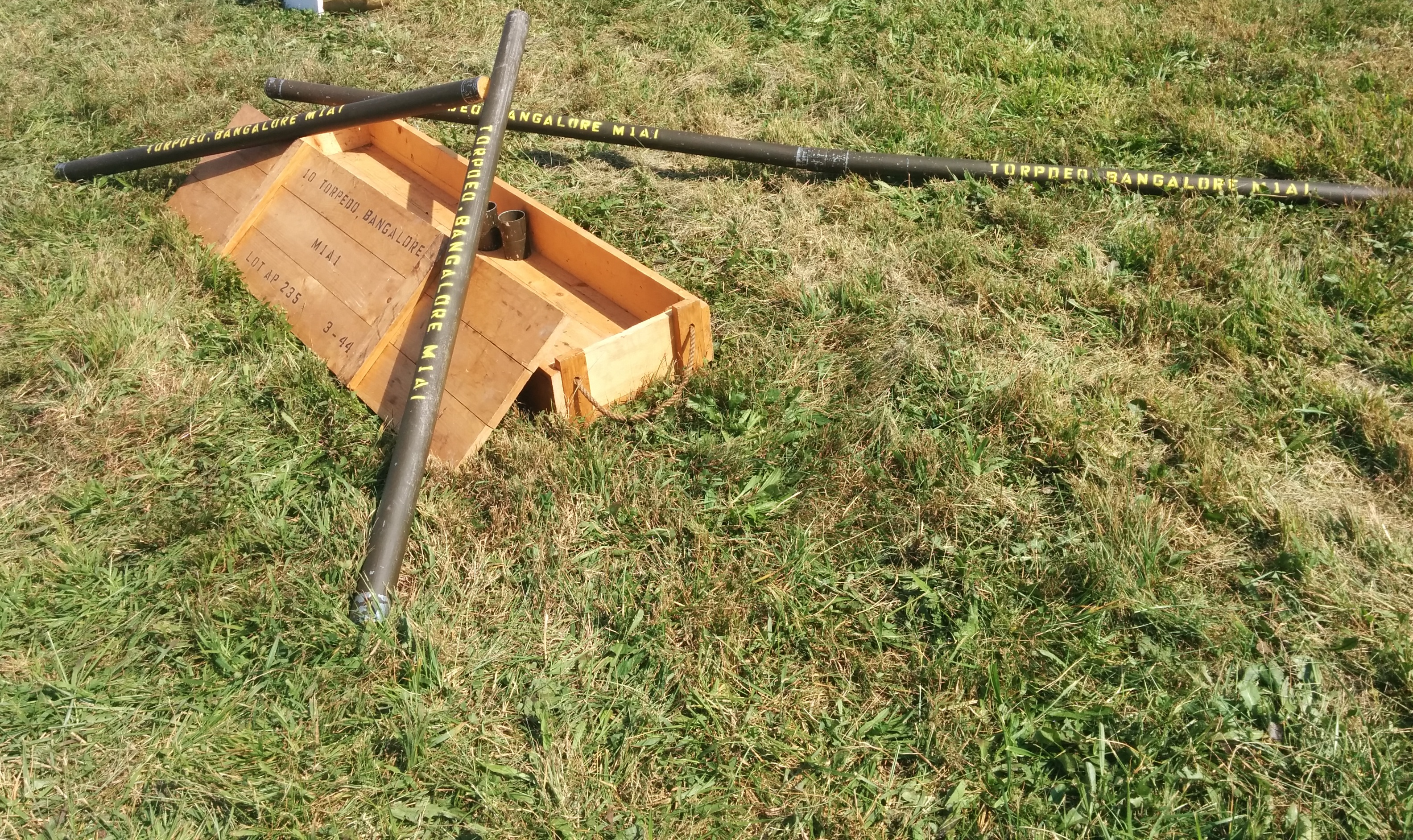 Bangalore torpedo during a collector meeting at EN:New Oxford, Pennsylvania at the Liberation of New Oxford event. There is four pieces: two individual pieces, and two attached together.